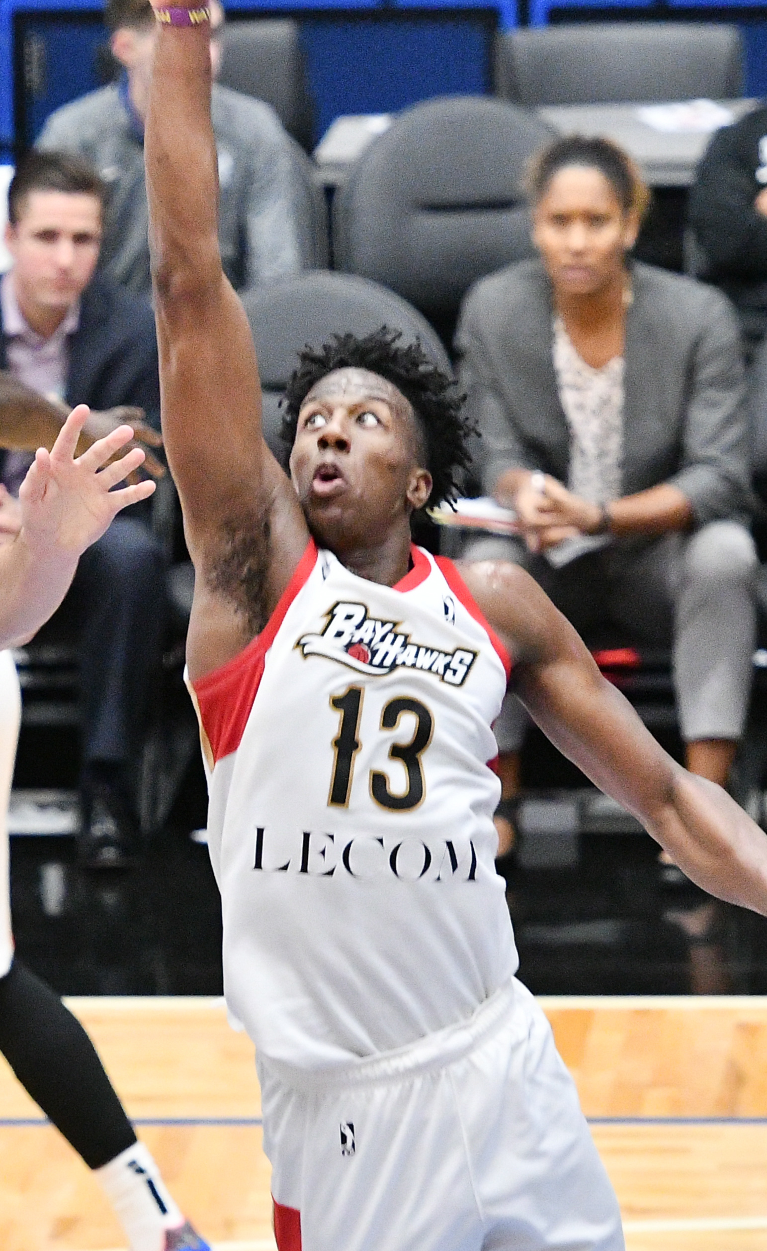 Lakeland Magic vs Erie BayHawks. RP Funding Center. Lakeland, Fla. Nov. 17, 2019. (Photo by Tom Hagerty.)